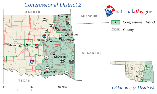 Oklahoma District 2. Image adapted from US fed gov't source